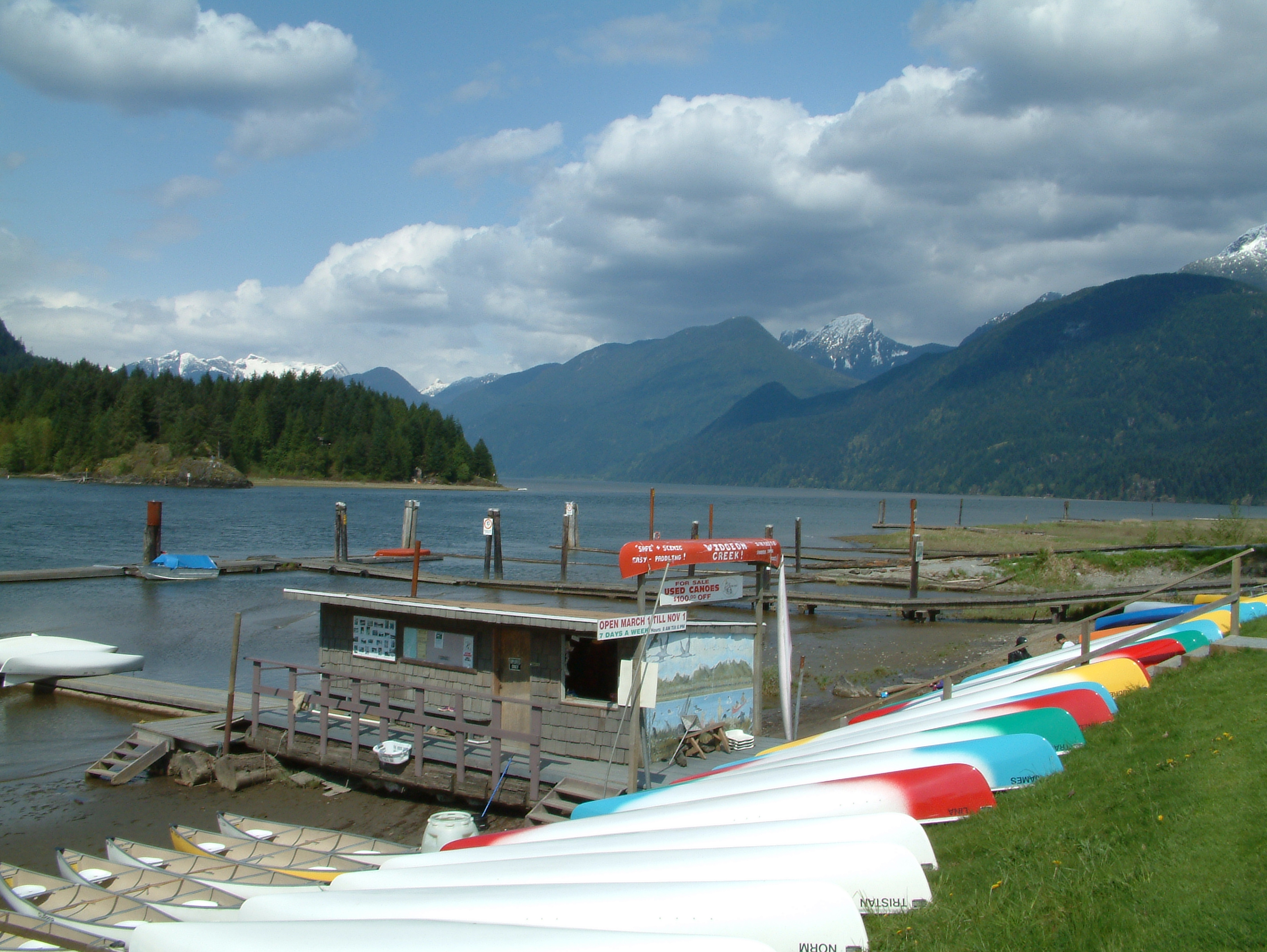 Pitt Lake BC